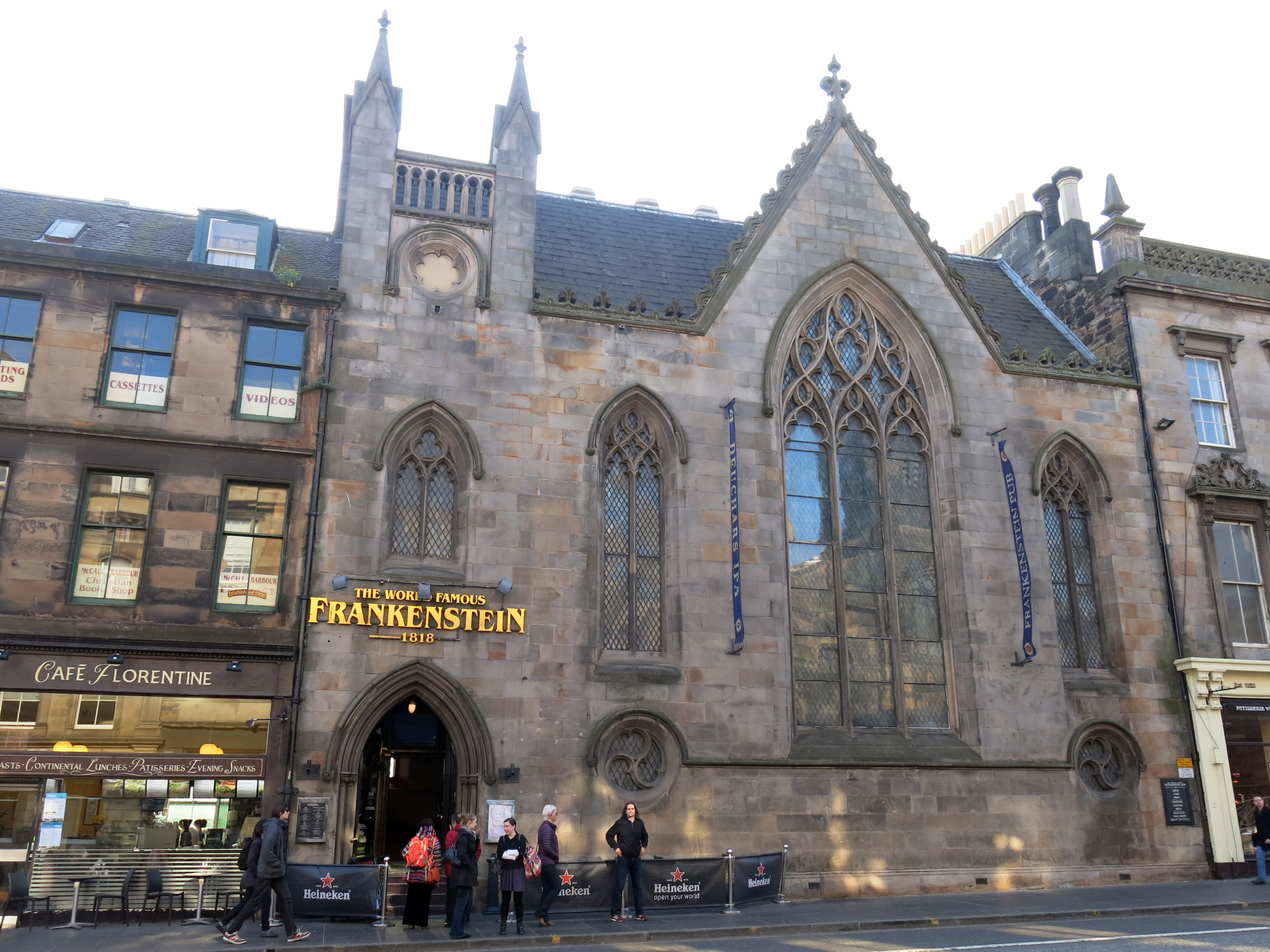 Edinburgh, Edinburgh, 26 George Iv Bridge, Frankenstein Pub.